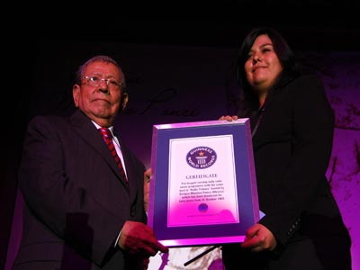 Montero obtained the certificate of Guinness World record